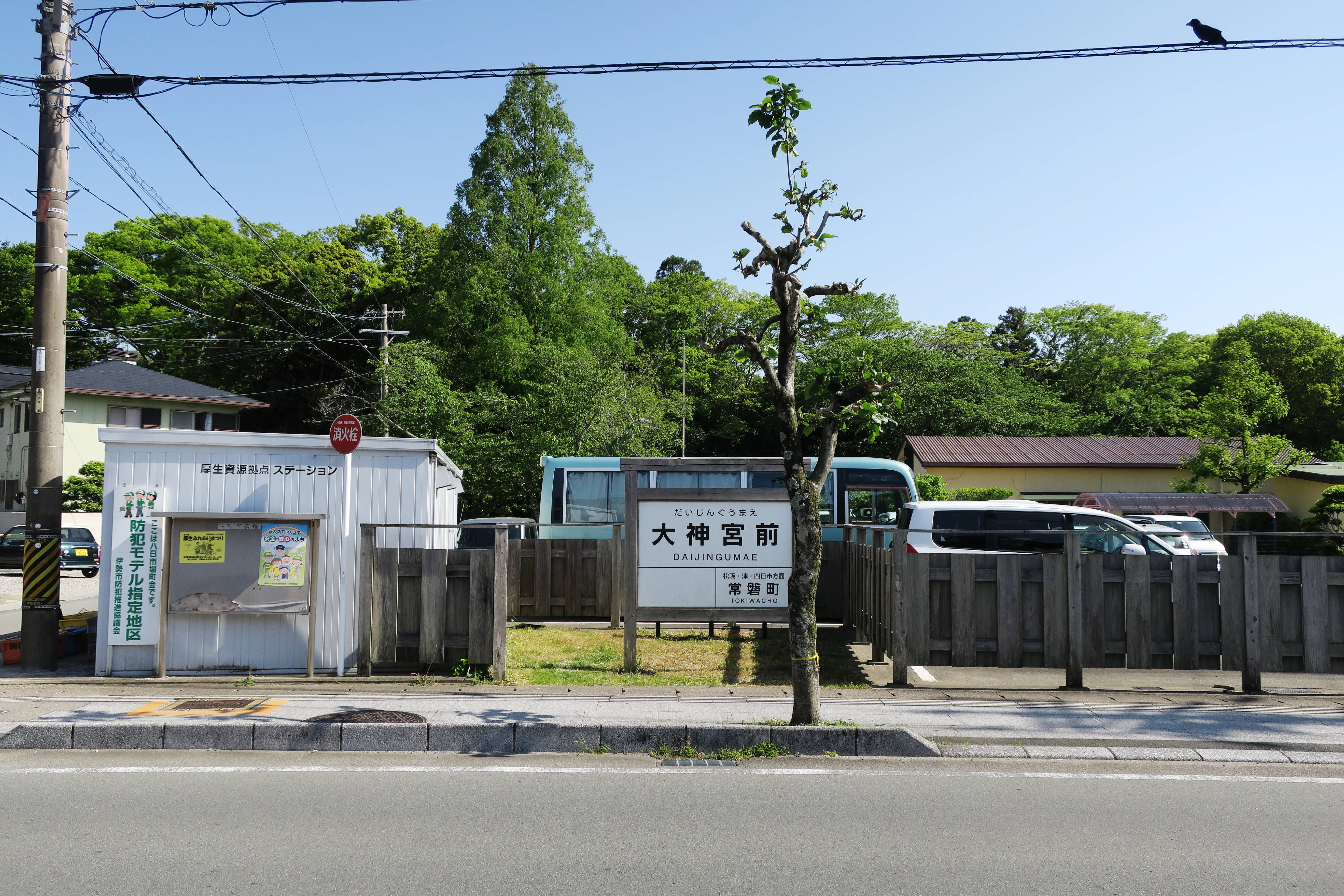 Daijingumae Station.